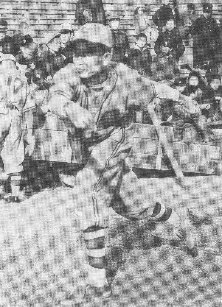 Sadao Kondo (Nippon Professional Baseball player), Prior to 1954.